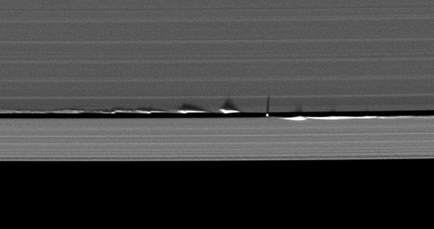 Never-before-seen looming vertical structures created by the tiny moon Daphnis cast long shadows across the rings in this startling image taken as Saturn approaches its mid-August 2009 equinox. Daphnis, 8 kilometers (5 miles) across, occupies an inclined orbit within the 42-kilometer (26-mile) wide Keeler Gap in Saturn's outer A ring. Recent analyses by imaging scientists published in the Astronomical Journal illustrate how the moon's gravitational pull perturbs the orbits of the particles forming the gap's edge and sculpts the edge into waves having both horizontal and vertical components. Measurements of the shadows in this and other images indicate that the vertical structures range between one-half to 1.5 kilometers tall (about one-third to one mile), making them as much as 150 times as high as the ring is thick. The main A, B and C rings are only about 10 meters (about 30 feet) thick. Daphnis itself can be seen casting a shadow onto the nearby ring. This image of shadows on the rings and others like it (see PIA11656 and PIA11655) are only possible around the time of Saturn's equinox which occurs every half-Saturn-year (equivalent to about 15 Earth years). The illumination geometry that accompanies equinox lowers the sun's angle to the ringplane and causes out-of-plane structures to cast long shadows across the rings. This view looks toward the sunlit side of the rings from about 57 degrees below the ringplane. The image was taken in visible light with the Cassini spacecraft narrow-angle camera on May 24, 2009. The view was acquired at a distance of approximately 826,000 kilometers (513,000 miles) from Daphnis and at a Sun-Daphnis-spacecraft, or phase, angle of 121 degrees. Image scale is 5 kilometers (3 miles) per pixel.